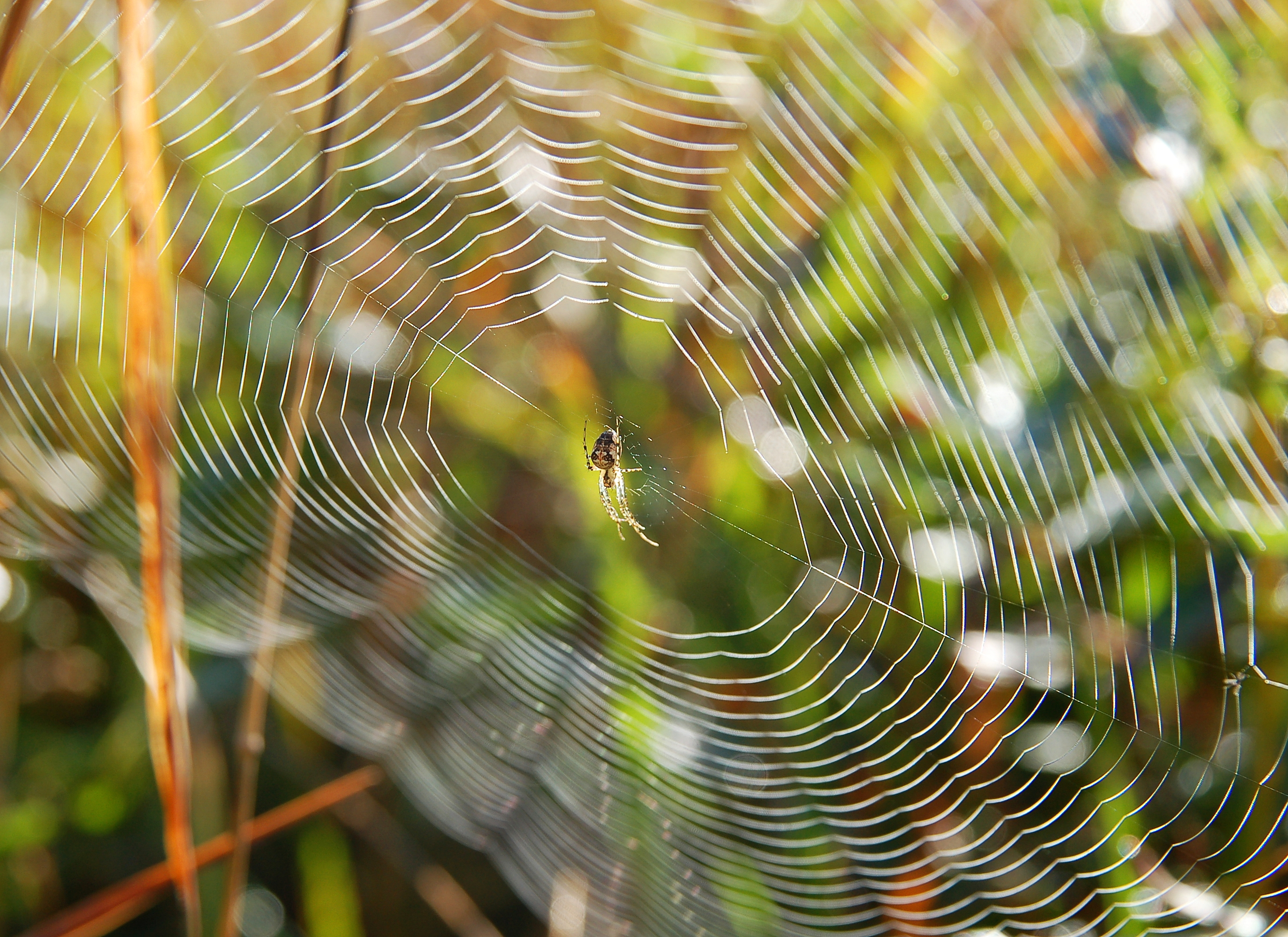 Spider web, Belgium - Ciney (Chapois) natural reserve Marie Mouchon